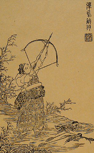 This illustration comes from "Inquiry of the Heavens" (天問圖), done by Xiao Yuncong (蕭雲從) during the early Qing dynasty. It depicts Hou Yi (后羿) shooting down suns.